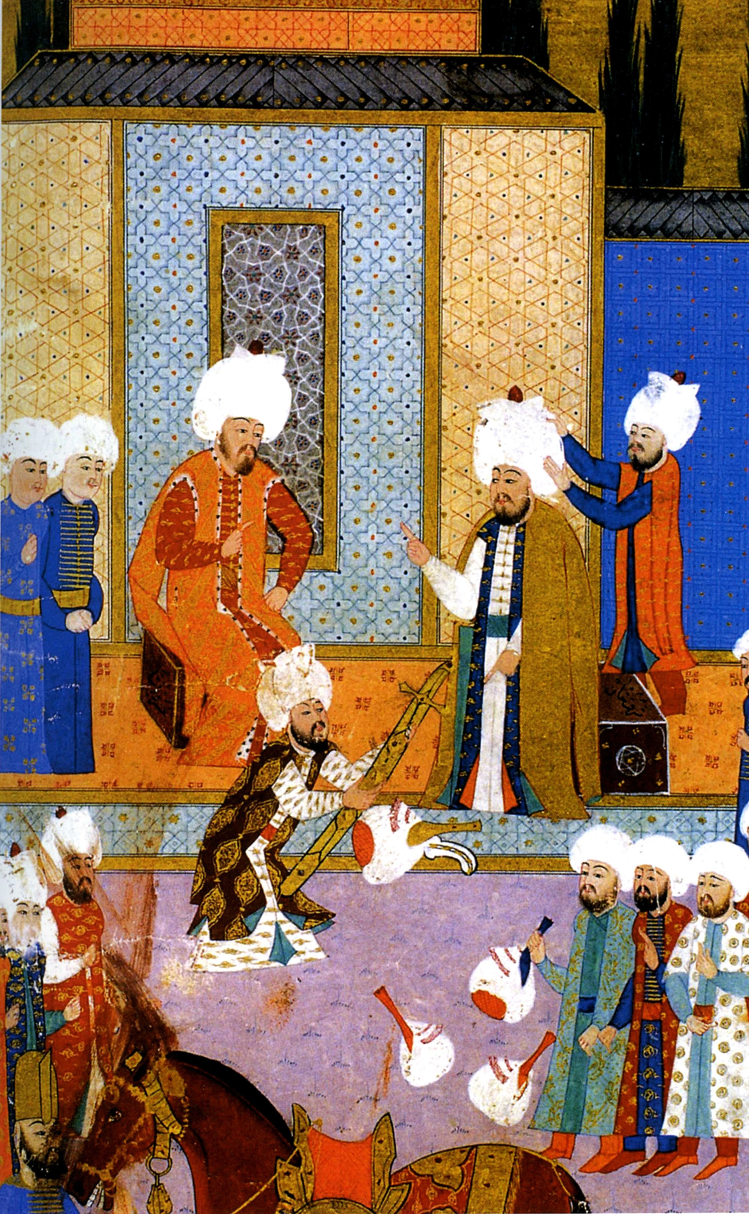 Sharaf khan convert to Suni, nusretname Mustafa Ali, 1578